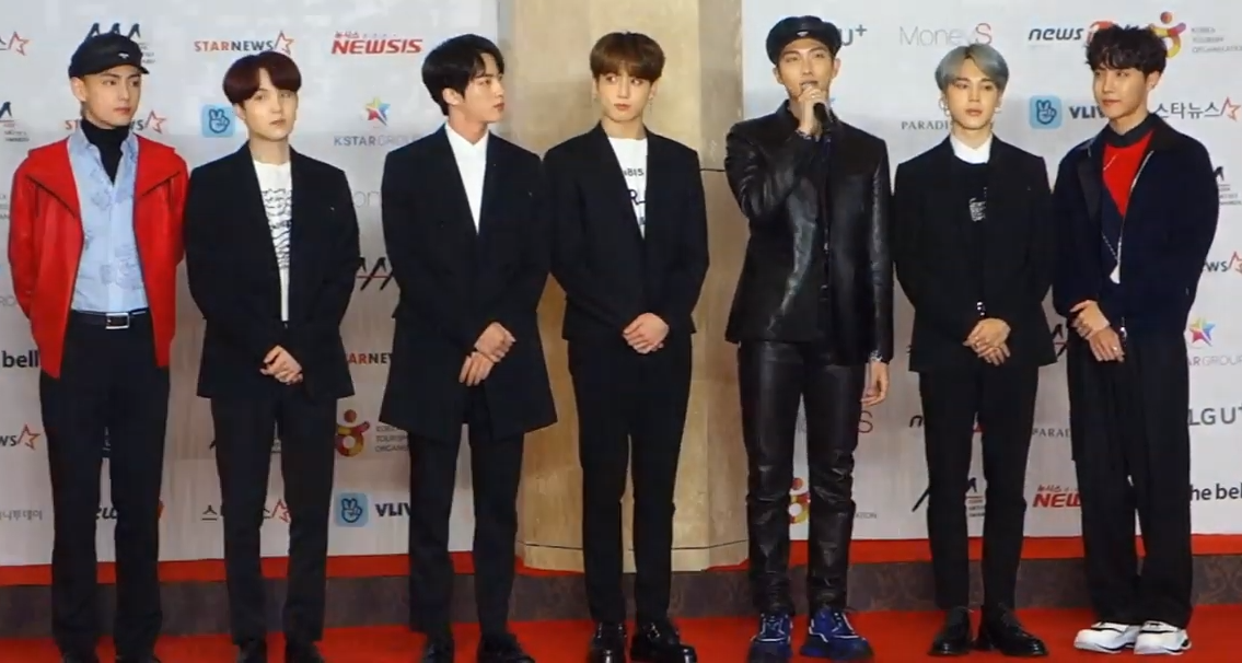 BTS at Asia Artist Awards red carpet on November 28, 2018.